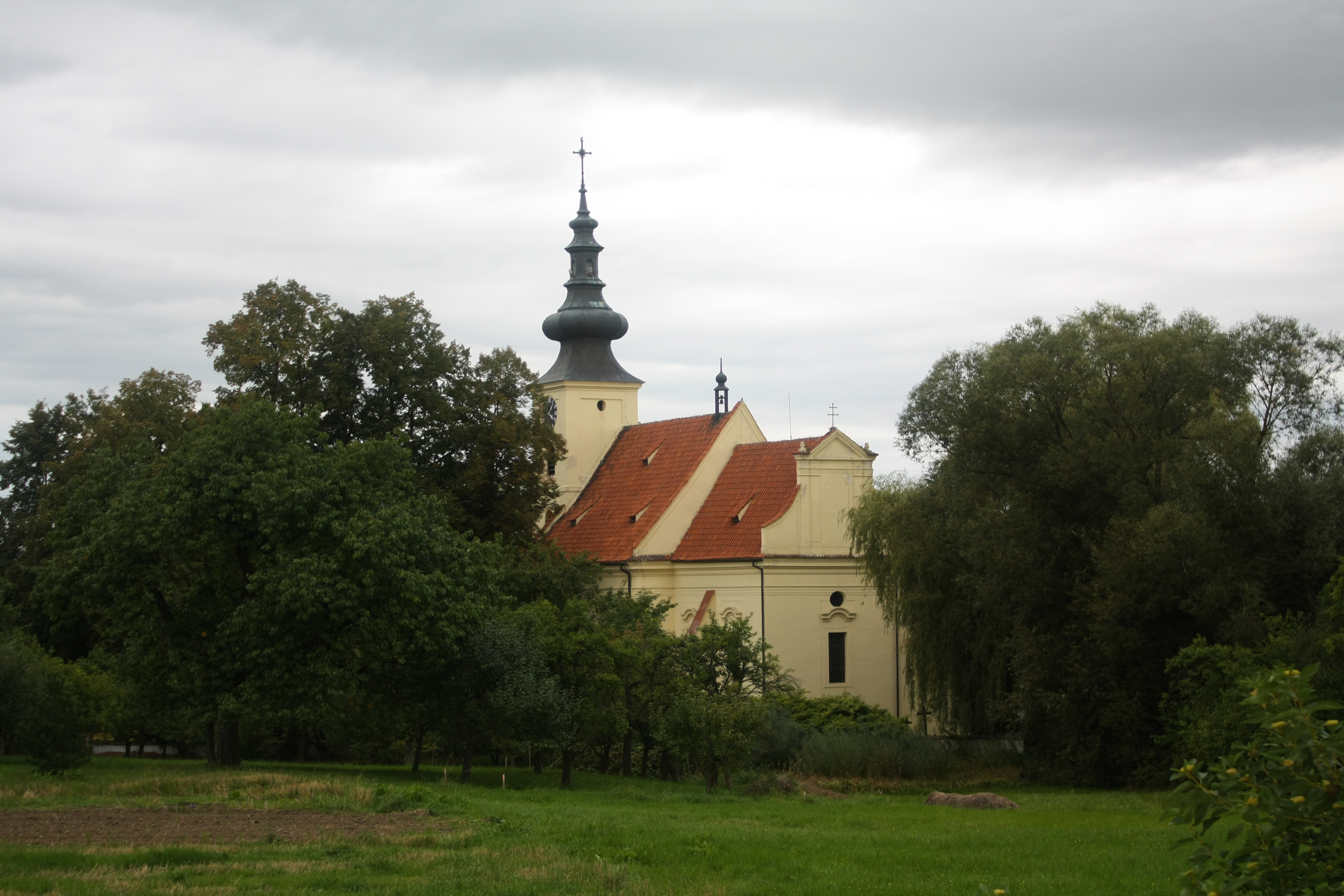 Kamenný Újezd, České Budějovice District, Czech Republic Object location48° 53′ 53″ N, 14° 26′ 48″ E This photograph was taken within the scope of the Czech 'Photo Workshops' grant.